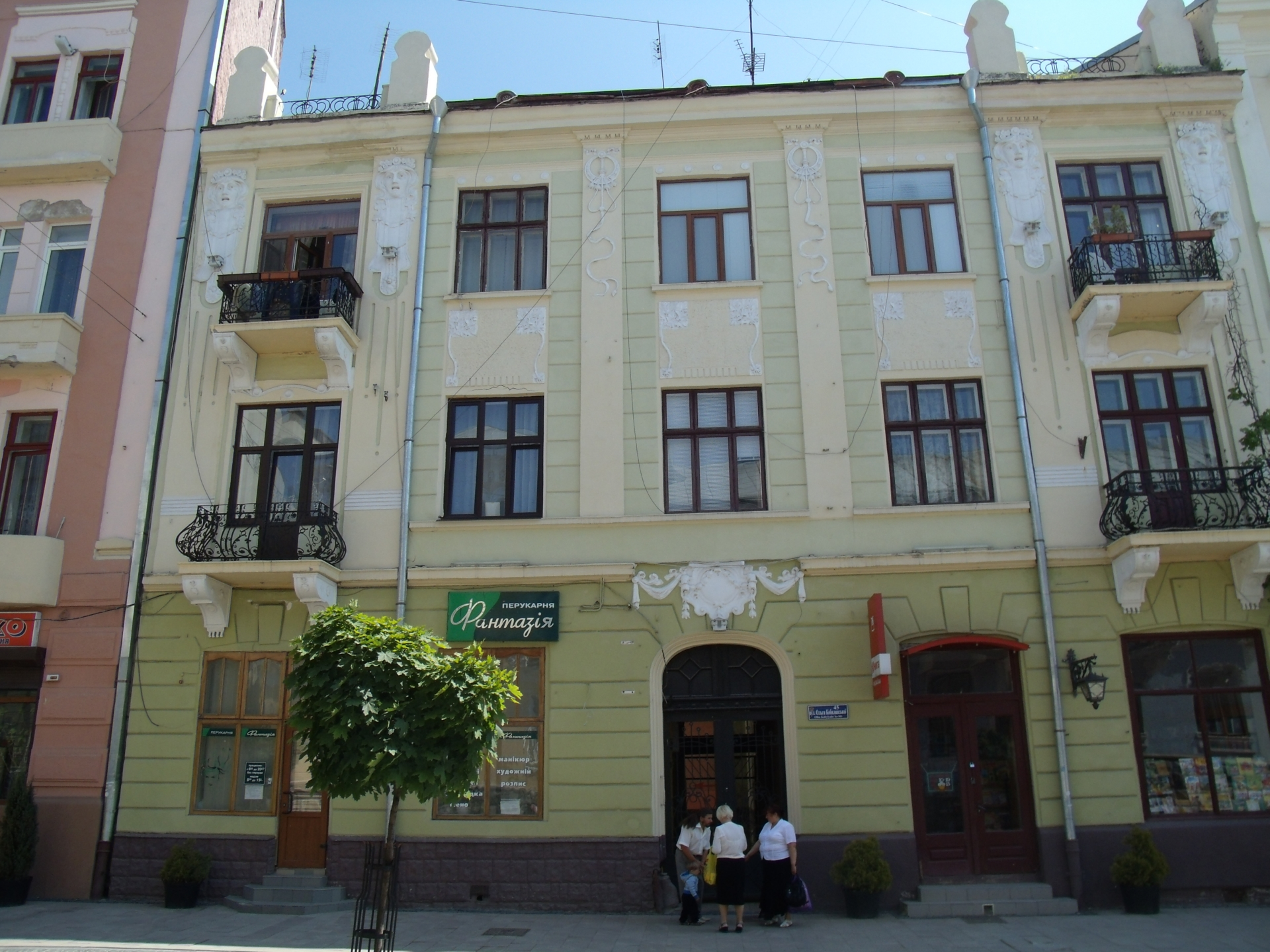 Chernivtsi, Kobylianska house 45